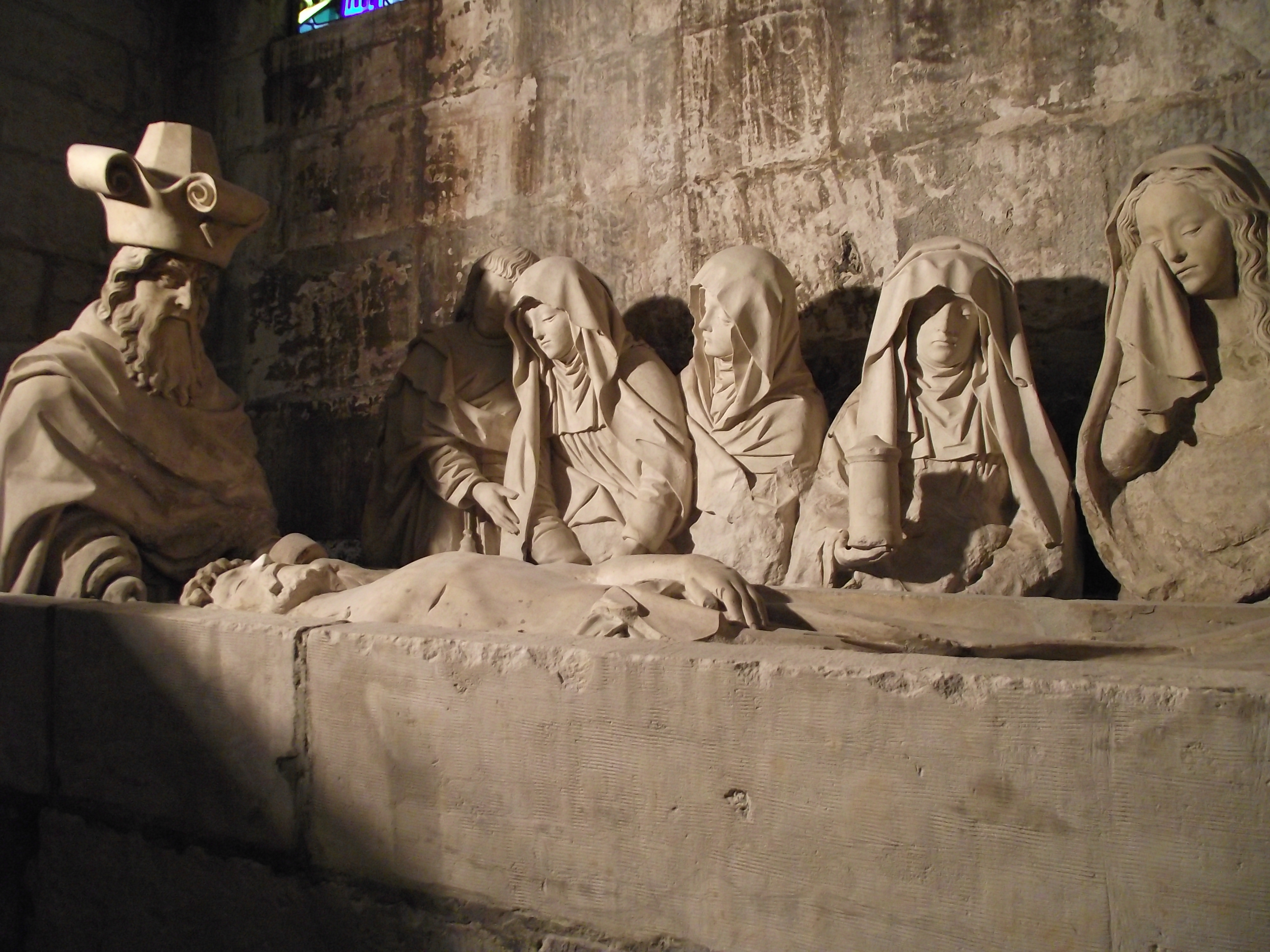 Louviers, Church of Our Lady,Entombment of Christ, XVI Century